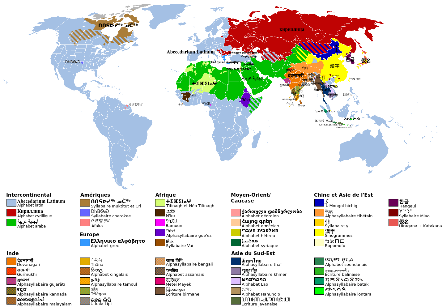 Map of writing systems in the world